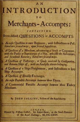 Front page of Merchants Accompts (1675) by John Collins (1624-1683)